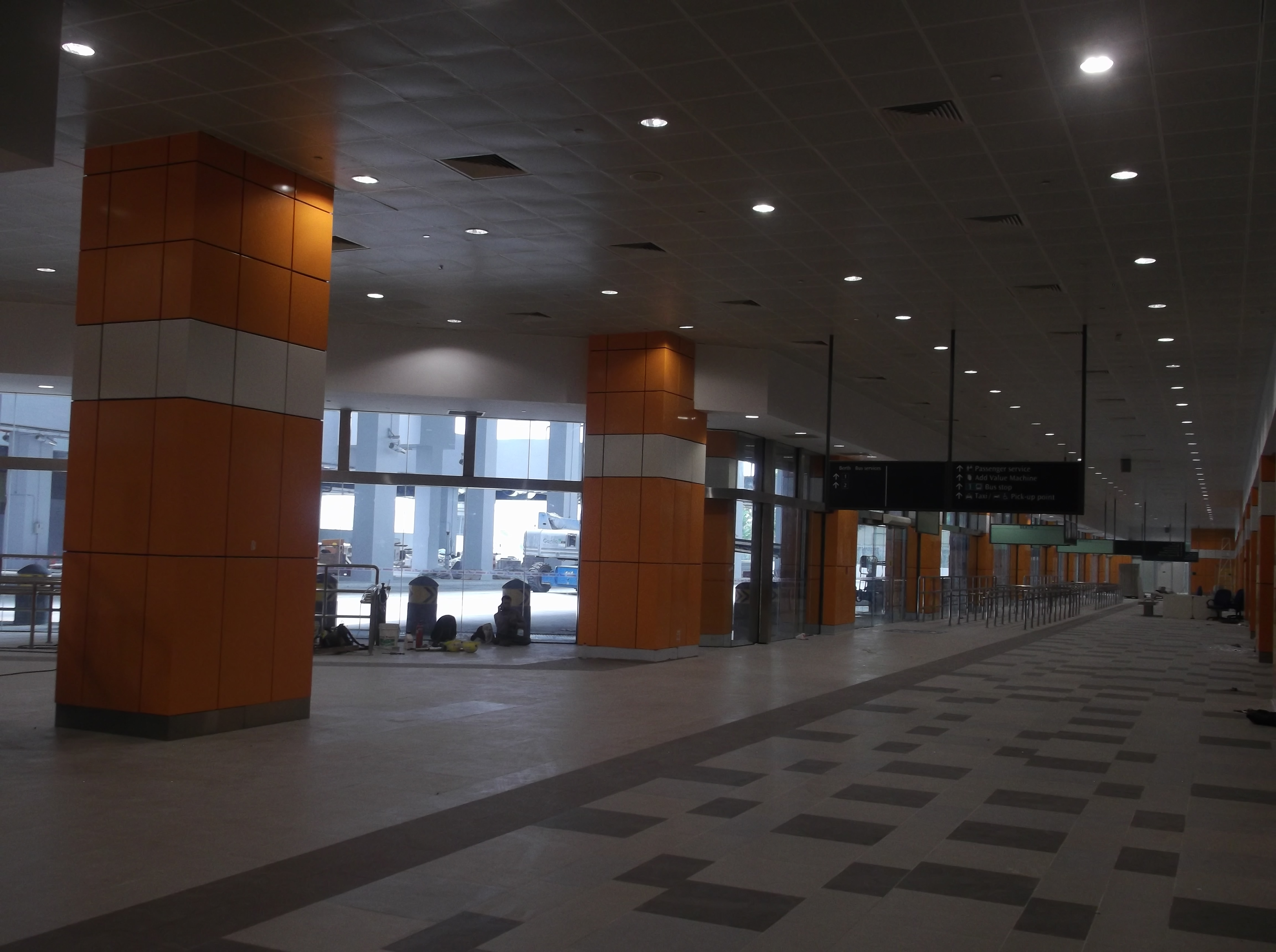 view of Joo Koon Bus Interchange when enter from Benoi Road